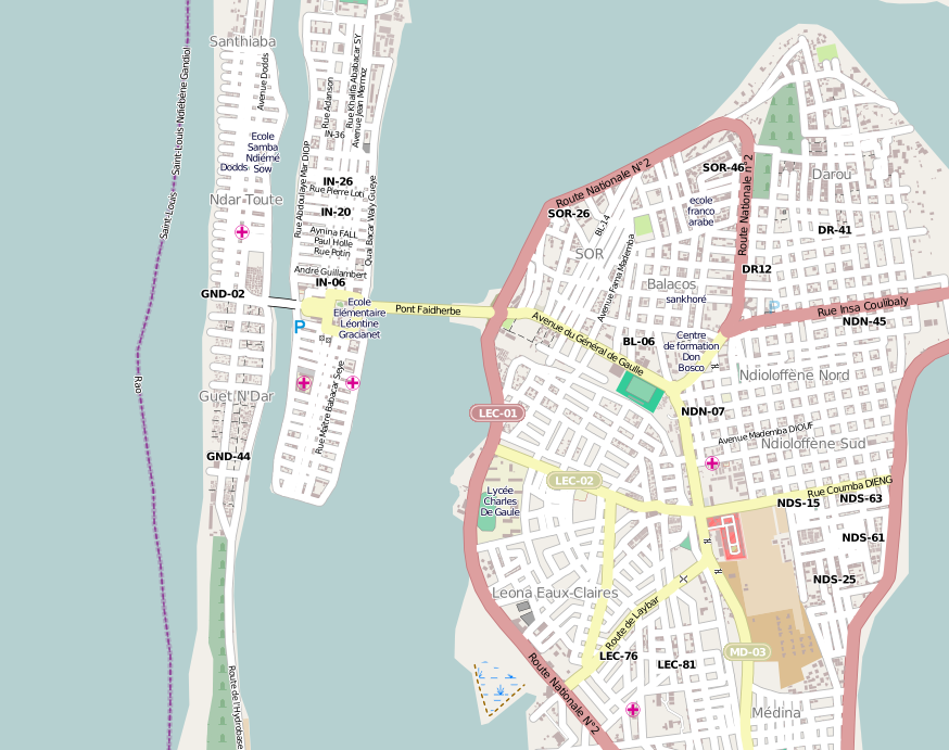 Map of Saint-Louis, focused on the Faidherbe bridge This map may be incomplete, and may contain errors. Don't rely solely on it for navigation.